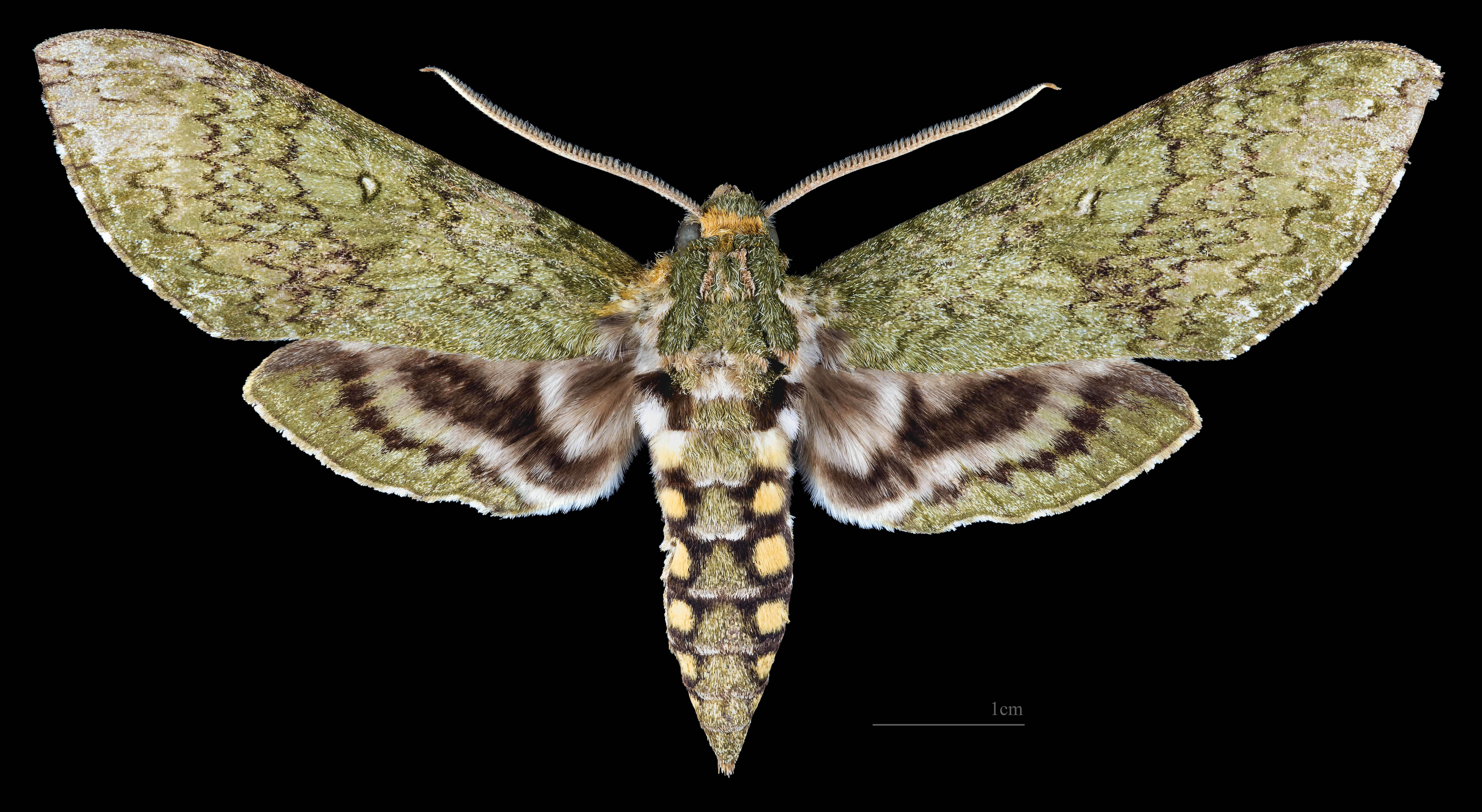 Manduca afflicta - Dorsal side Collection of the Mathematician Laurent Schwartz